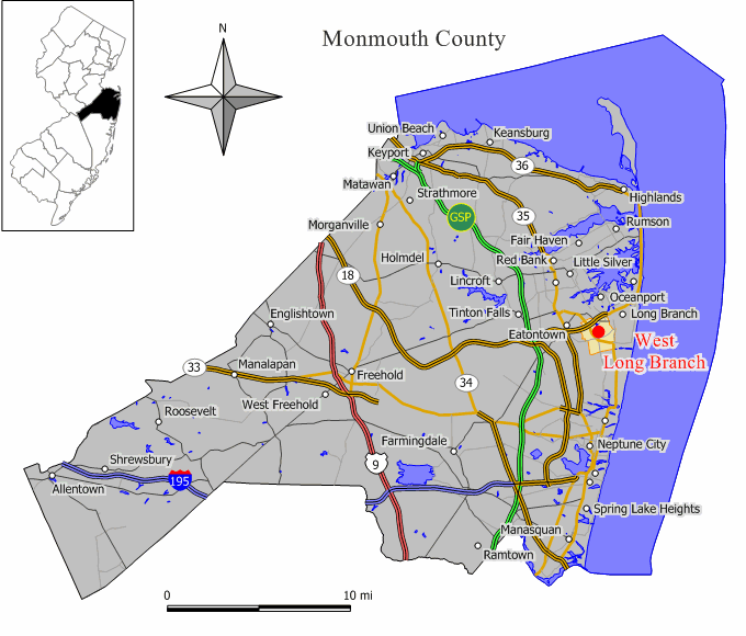 Source: Jim Irwin